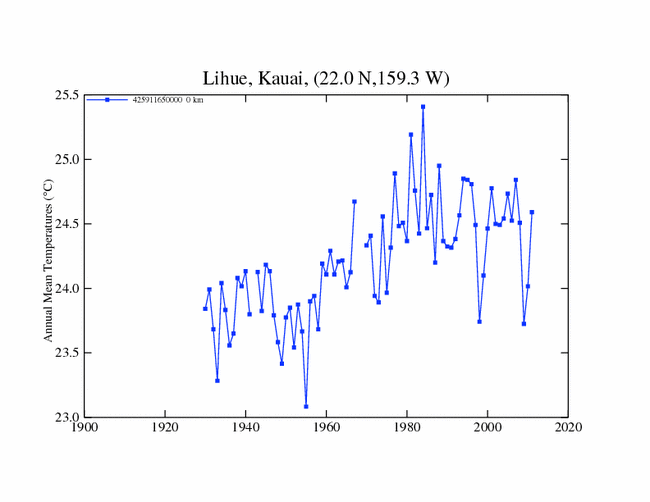 Climate graph of 1929 2012 air average temperaturas of Lihue, Kauai